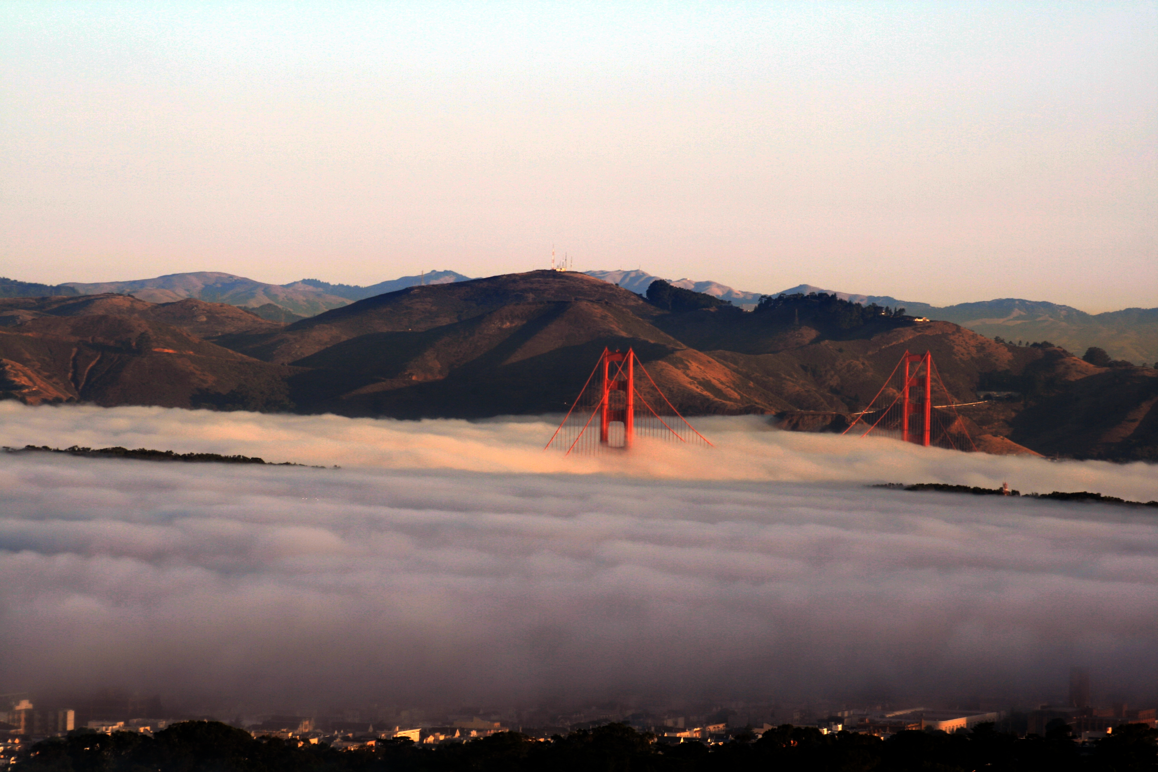 Golden Gate Bridge in fog as seen from Twin Peaks in San Francisco.